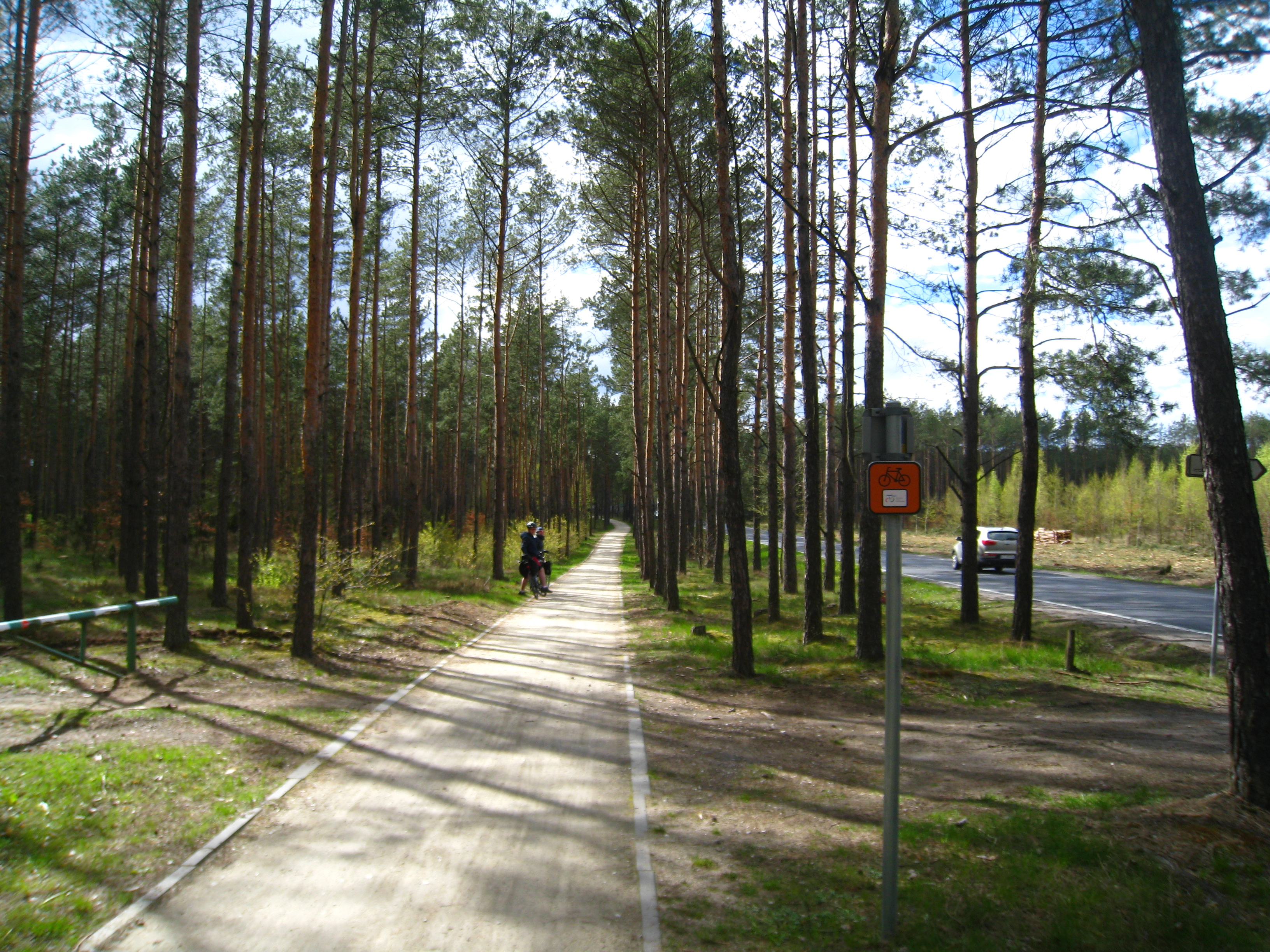 Vistula river bike trail between Osiek and Grabowiec